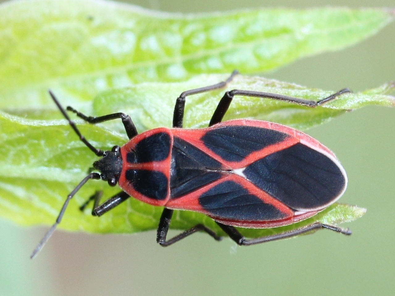 Tropidothorax cruciger on Cynanchum caudatum in Trorikura Forest Routes, Ōshika, Nagano prefecture, Japan.